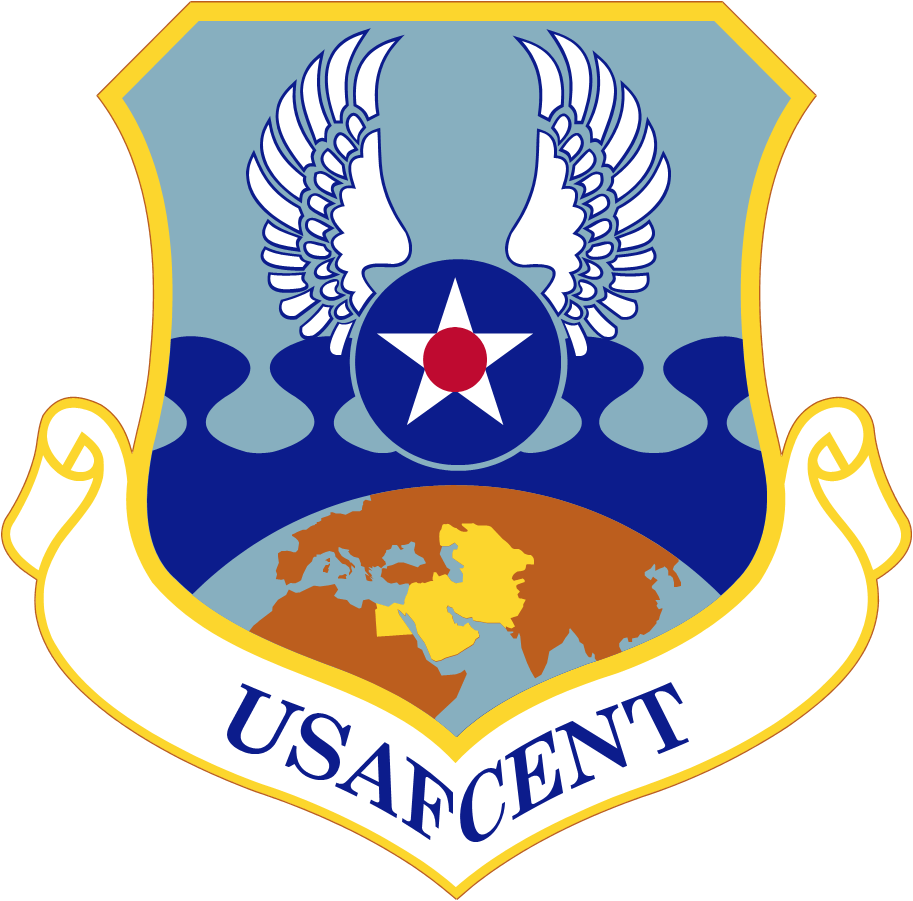 Emblem of United States Air Forces Central